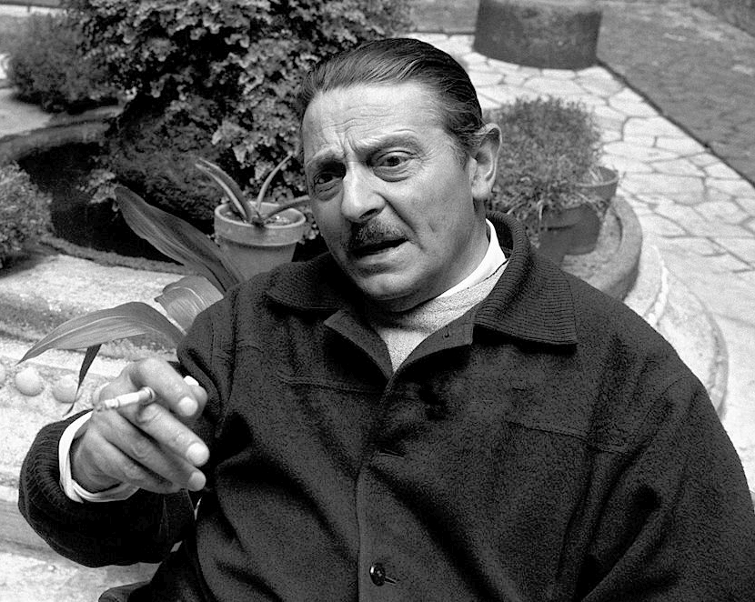 Italian director Alessandro Blasetti relaxing smoking a cigarette on the set of Me, Me, Me.. and the Others. Rome, June 1965.